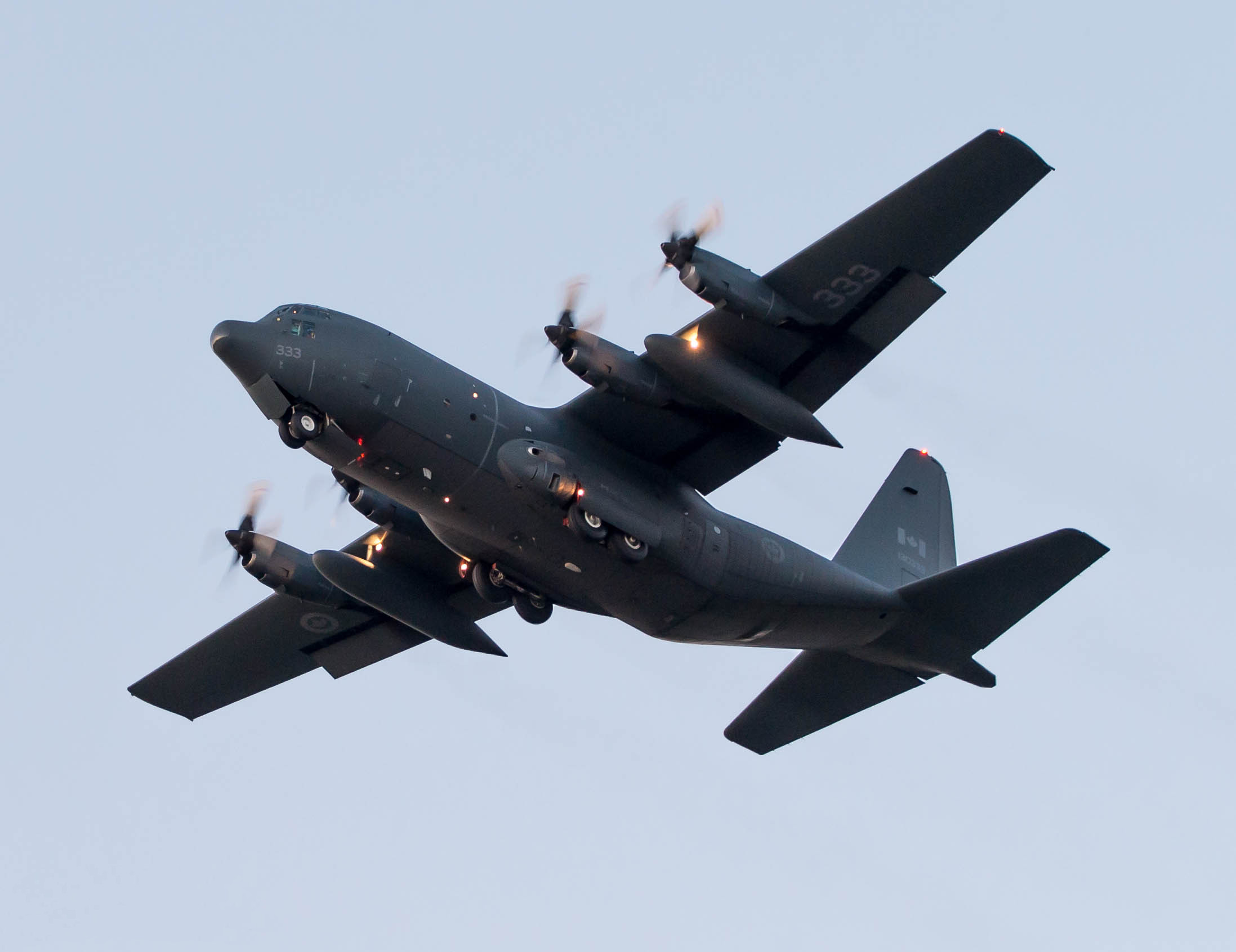 Lockheed C-130 Hercules flying at near Canadian Forces Base Greenwood, Nova Scotia, Canada.